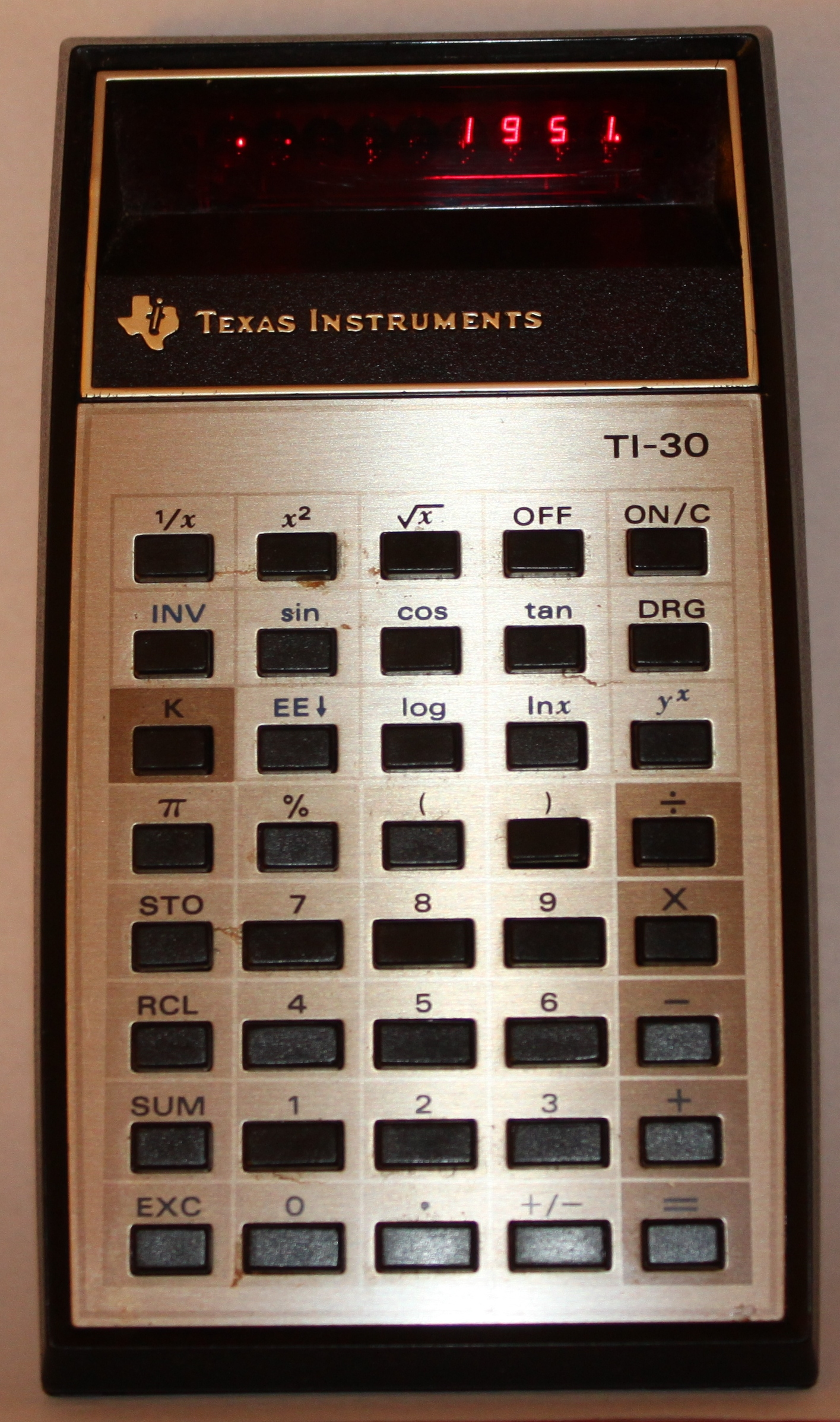 Texas Instruments, TI-30 electronic calculator, 1969-1976.